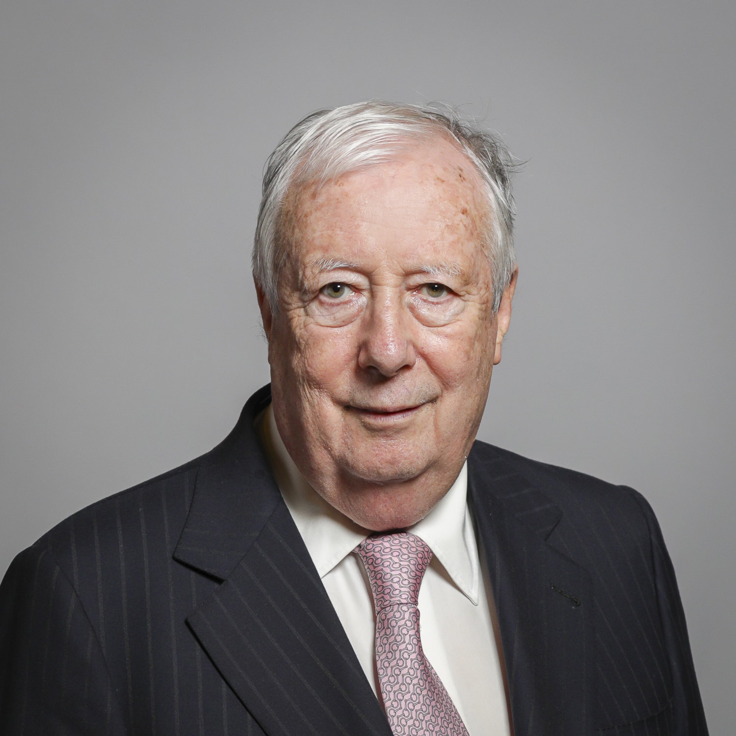 Official portrait of Lord Harris of Peckham 1×1 portrait of Lord Harris of Peckham